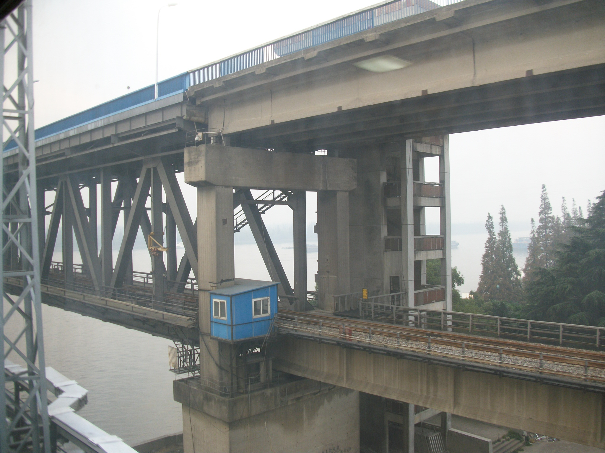 Railway under Songpu Bridge.